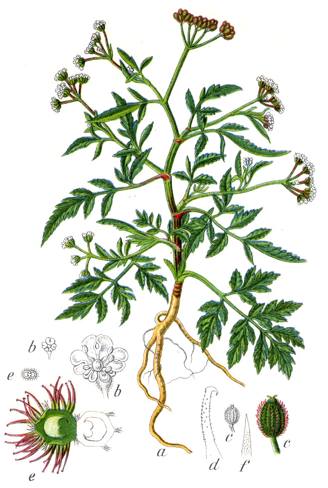 Torilis arvensis subsp. arvensis, syn. Caucalis arvensis Huds., Caucalis helvetica Jacq. Original Caption Starke Hundsklette, Caucalis helvetica